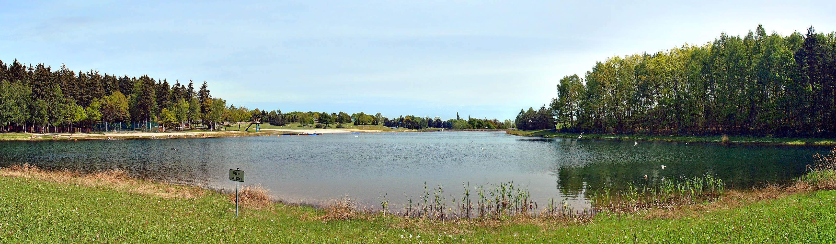 This image shows a panorama photo of the reservoir Oberrabenstein (Saxony, Germany). It has been stitched together using three single images.